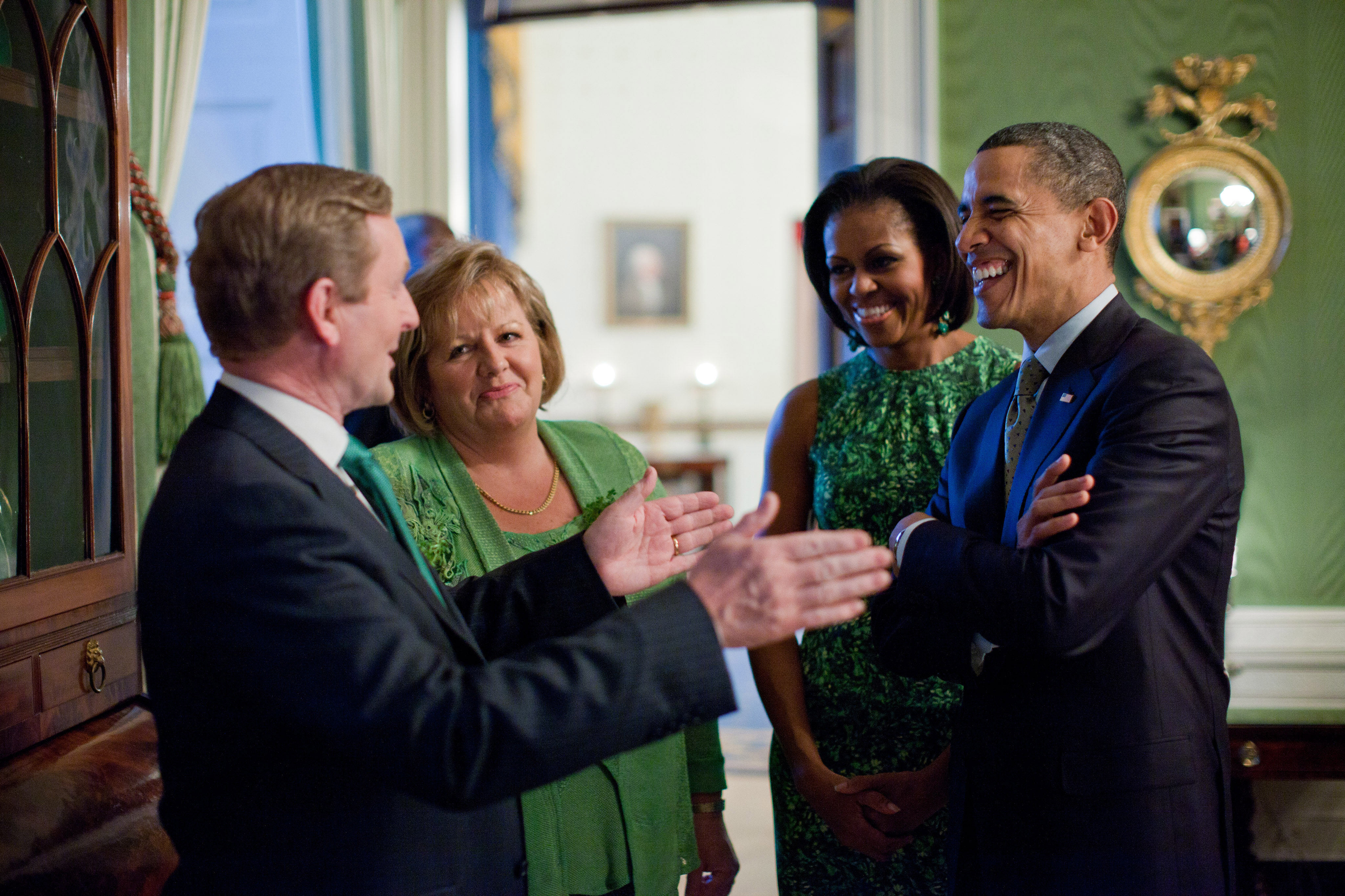 U.S. President Barack Obama and First Lady Michelle Obama talk with Taoiseach Enda Kenny and his wife, Fionnuala Kenny, in the Green Room of the White House before the annual Saint Patrick's Day Reception on 17 March 2011. Mrs. Obama wears a green printed Michael Kors frock and emerald earrings to celebrate the Irish national holiday.